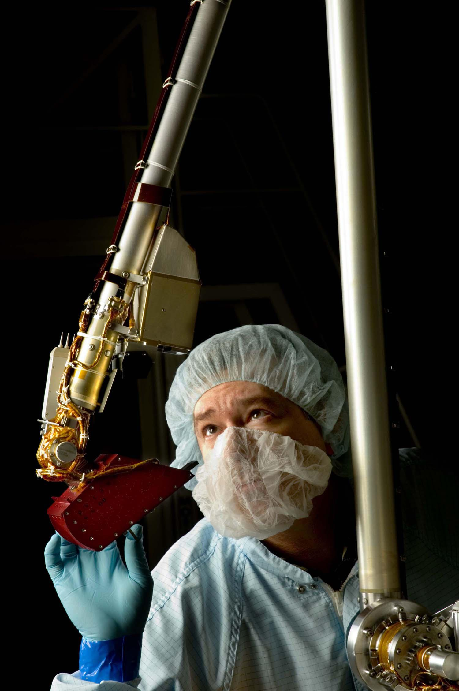 Phoenix Mars Lander : Phoenix Robotic Arm